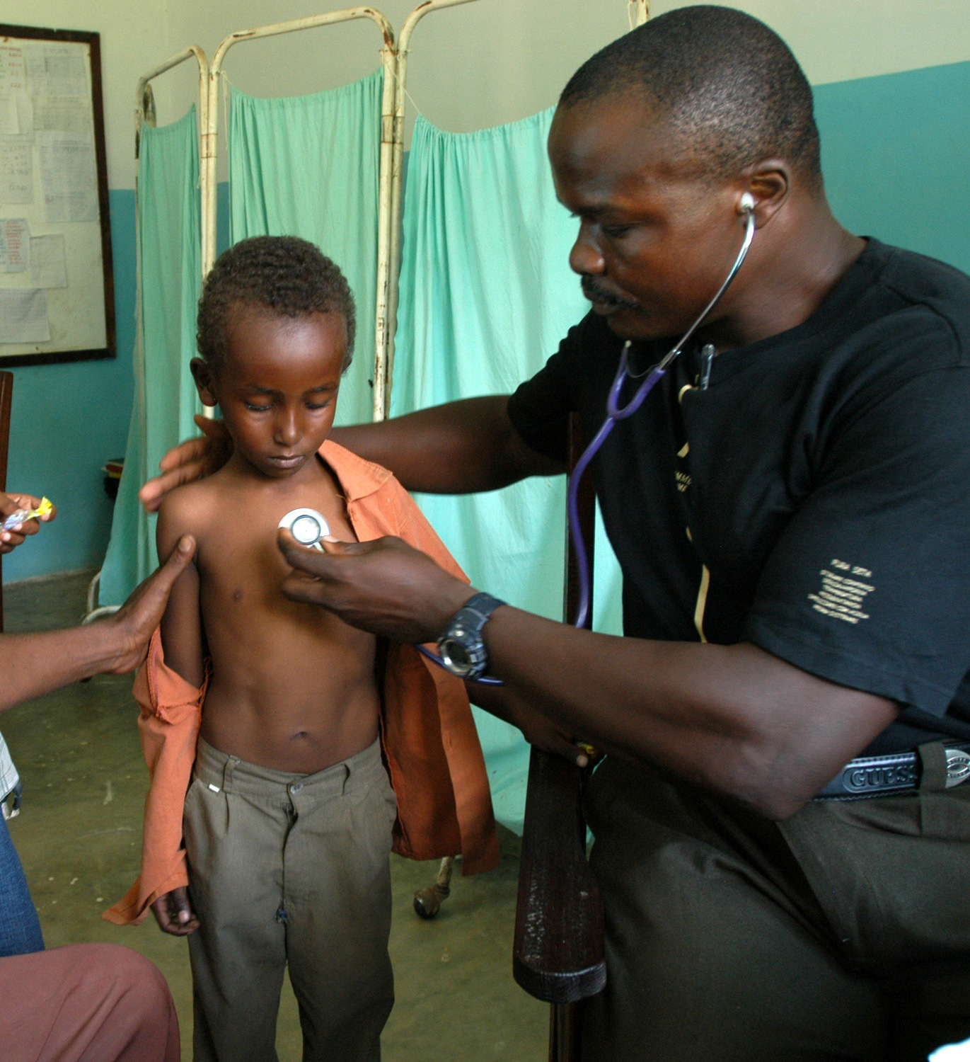 A Kenyan medical officer, right, listens to a young boy's heart during an examination as part of a medical civic action project (MEDCAP) in Hindi, Kenya, Sept. 16, 2006. Kenyan navy and U.S. military MEDCAP personnel provided needed medical care to more than 1,500 people in Hindi.